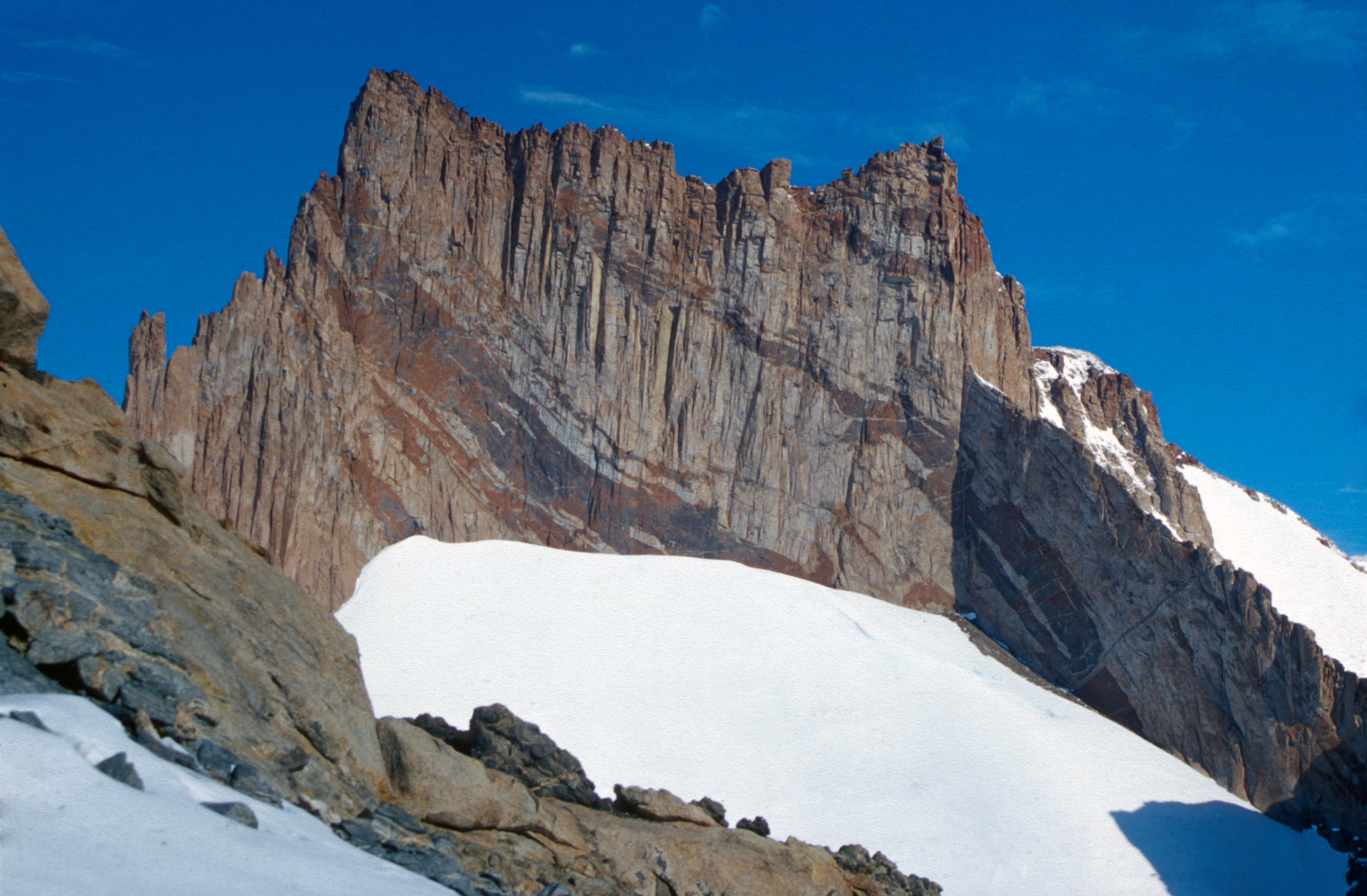 Stalstuten in Dronning Maud Land, Antarctica, north face of a granite/charnockite wall